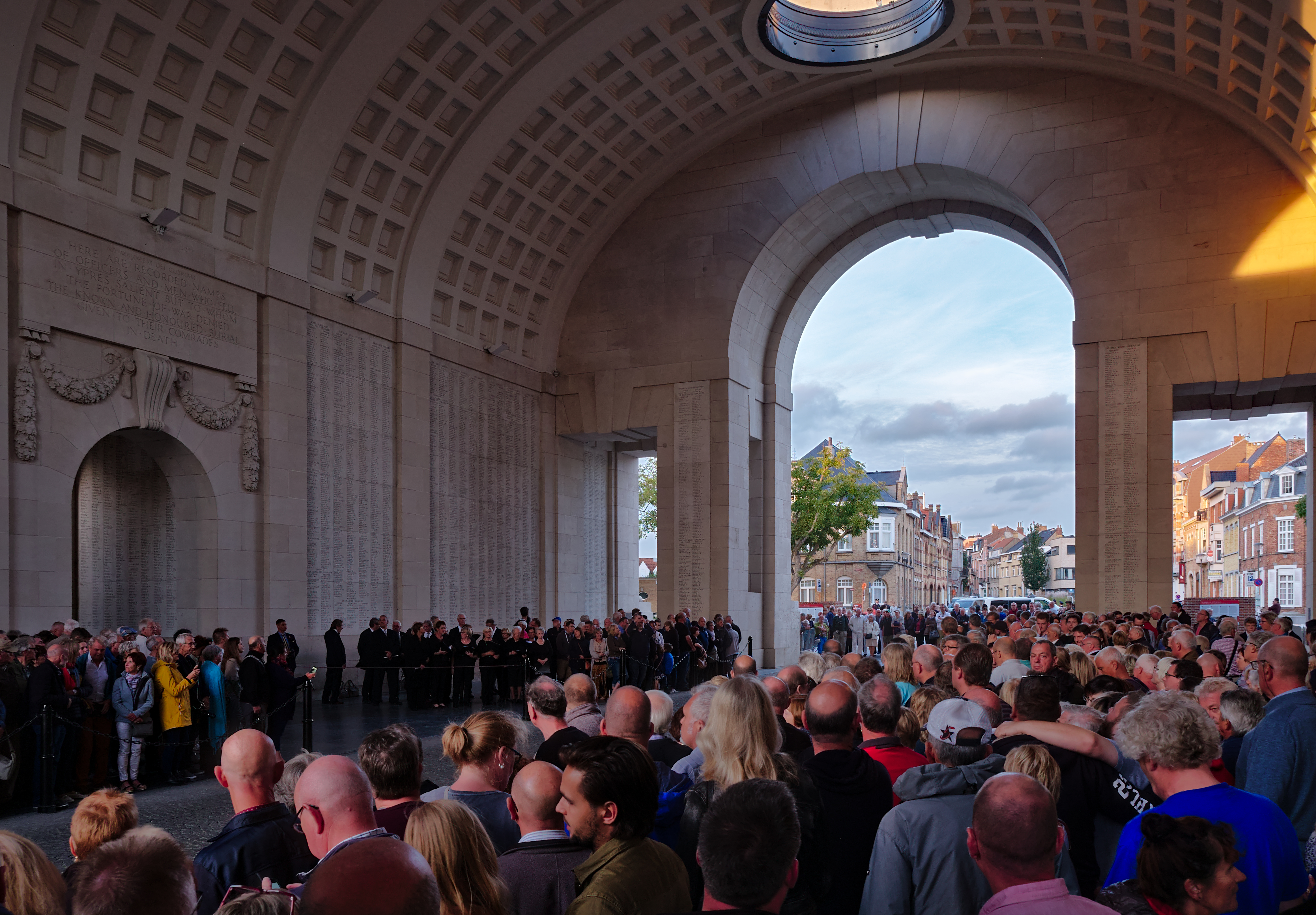 Last Post ceremony at the Menin Gate in Ypres This photo of immaterial heritage has been taken in the Flemish Region